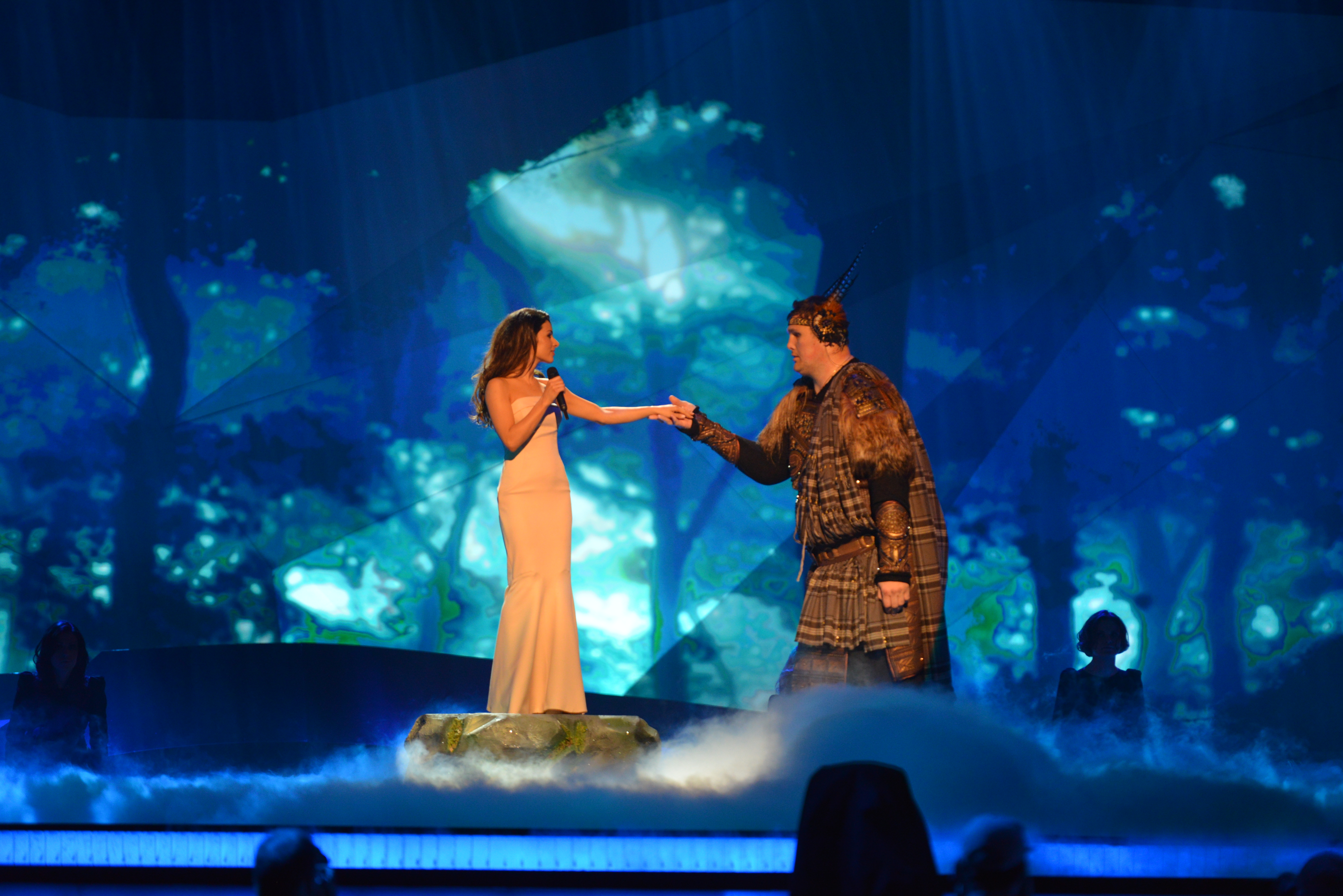 Zlata Ognevich representing Ukraine with the song "Gravity" during the first dress rehearsal of the first semi final of the Eurovision Song Contest 2013 Malmö. (Help translate this text)